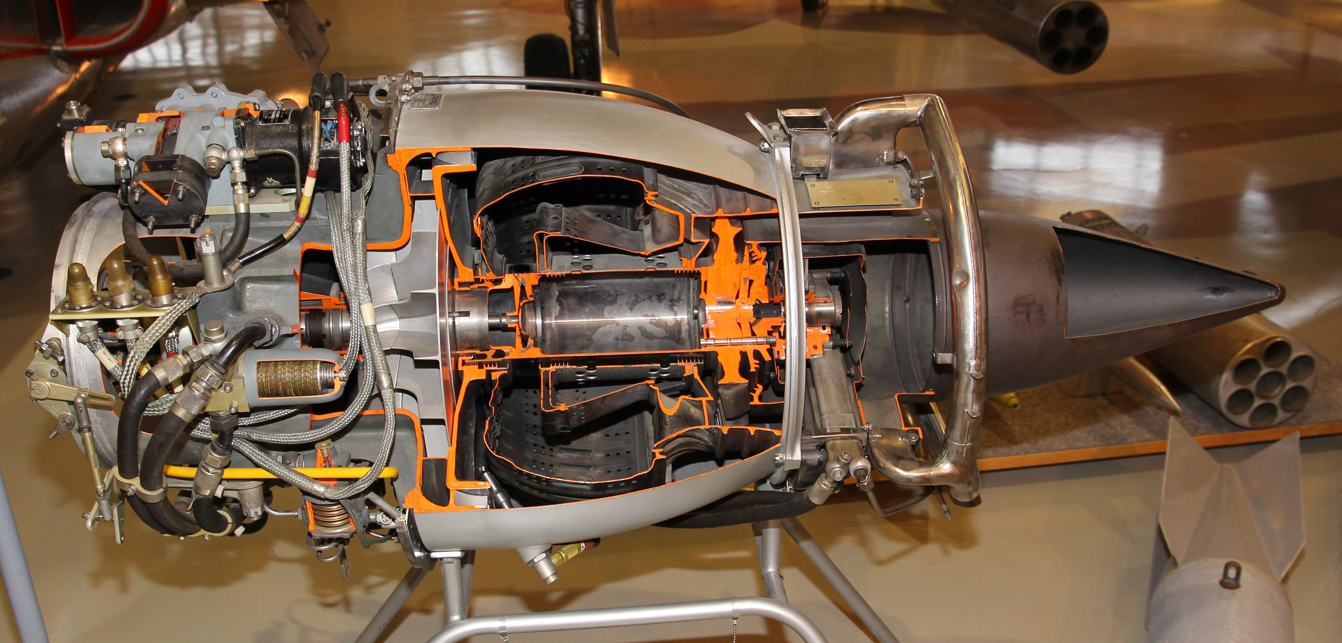 Turbomeca Marboré II F 3 jet engine used in Fouga CM 170 Magister jet trainer in the Aviation Museum of Central Finland.